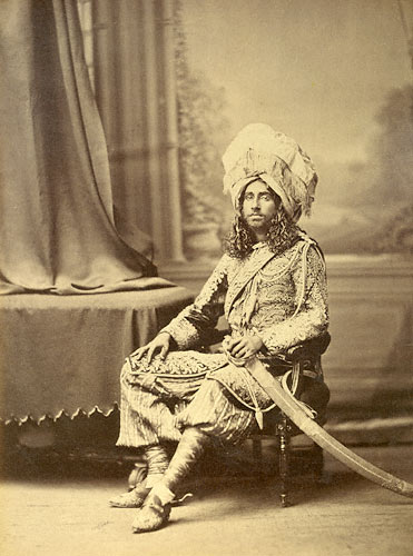 The Nawab Muhammad Bahawal Khan Abbasi V Bahadur (1883–1907) of Bahawalpur State. -Not Bharatpur- The Abbasi Dynasty (Daudputra) - Picture and biography